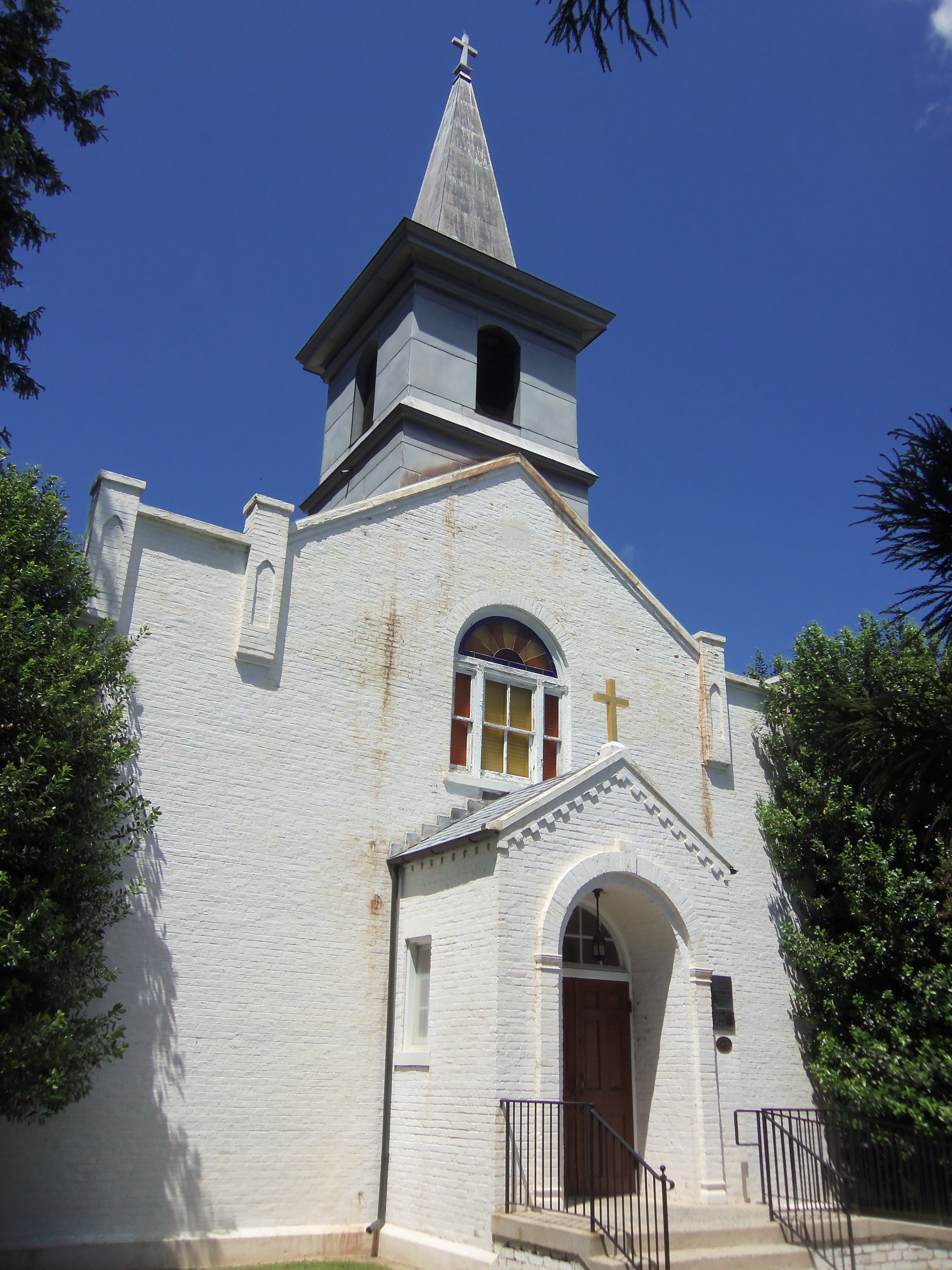 Old St. Mary's Church Catholic in Rockville, Maryland. It located next door to the the present church and it is listed on the National Register of Historic Places.